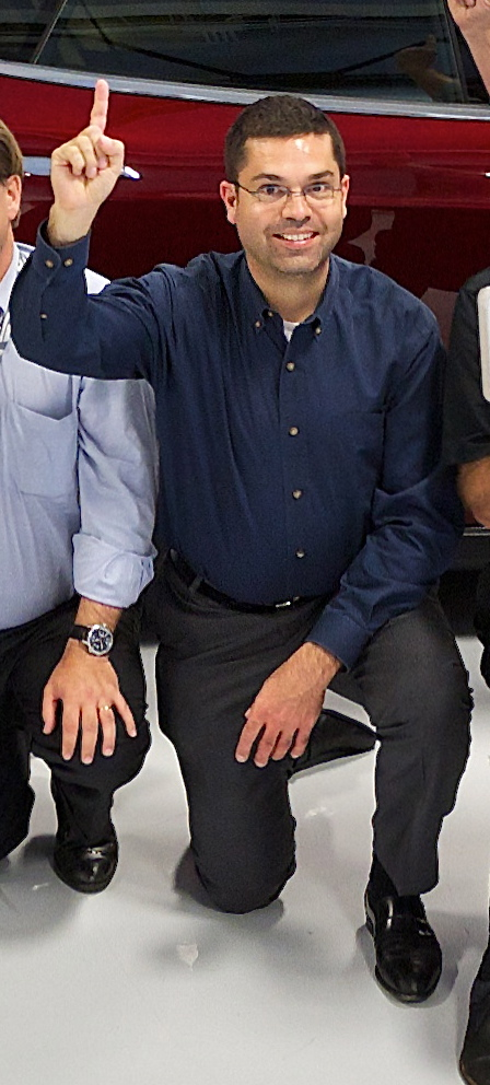 Jérôme M. Guillen, Acting Vice-President, Vehicle Engineering, Tesla Motors. Tesla HQ Salute. With one finger up for the first Model S delivery, VIN 0001, at the Deer Park HQ. Driving inside is OK for an EV. =)